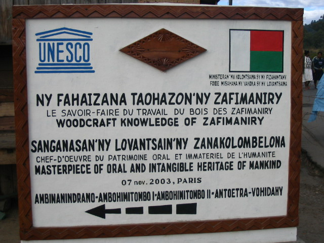 The Zafimaniry and their work considered a "Masterpieces of the Oral and Intangible Heritage of Humanity"